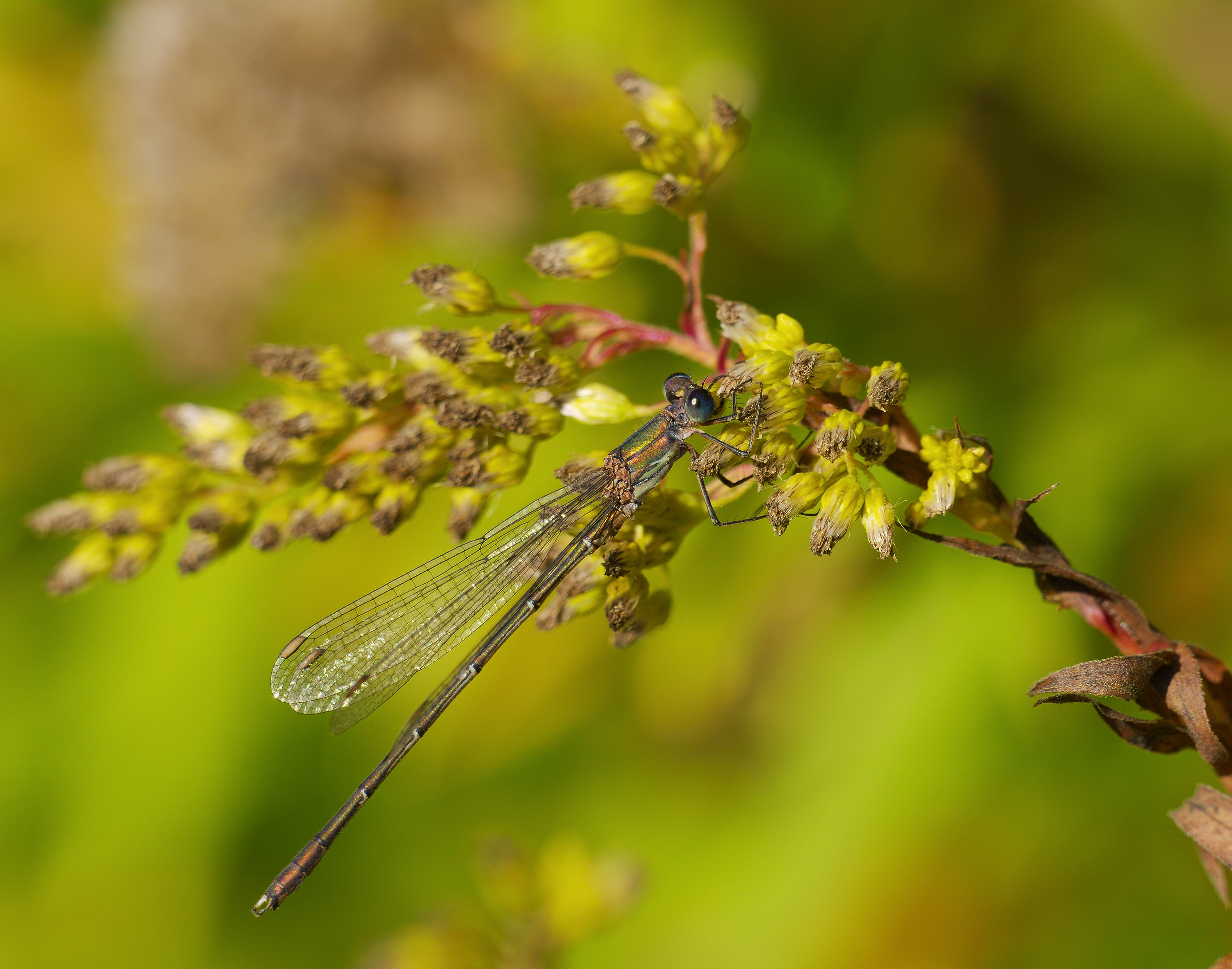 Western willow spreadwing - Lestes viridis, male. Taken the Wagbachniederung in Oberhausen-Rheinhausen, Baden-Württemberg, Germany.